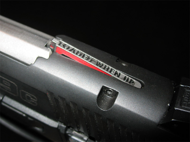 The loaded chamber indicator of a Ruger SR9 compact, the SR9c. Dummy ammunition used to simulate a loaded firearm.